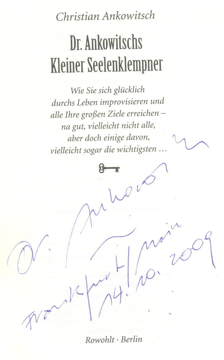 Autograph from Christian Ankowitsch, Austrian writer and journalist